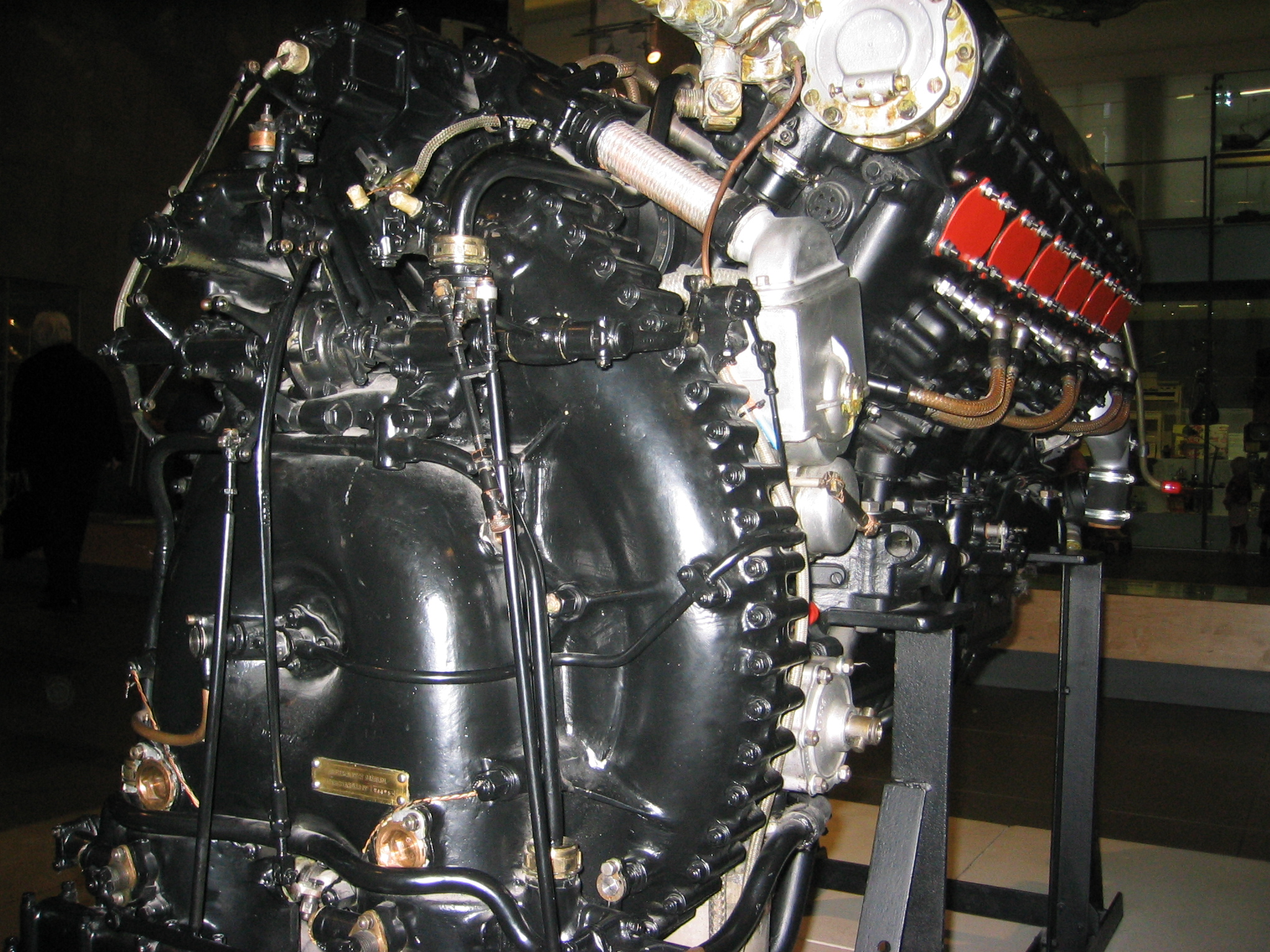 London